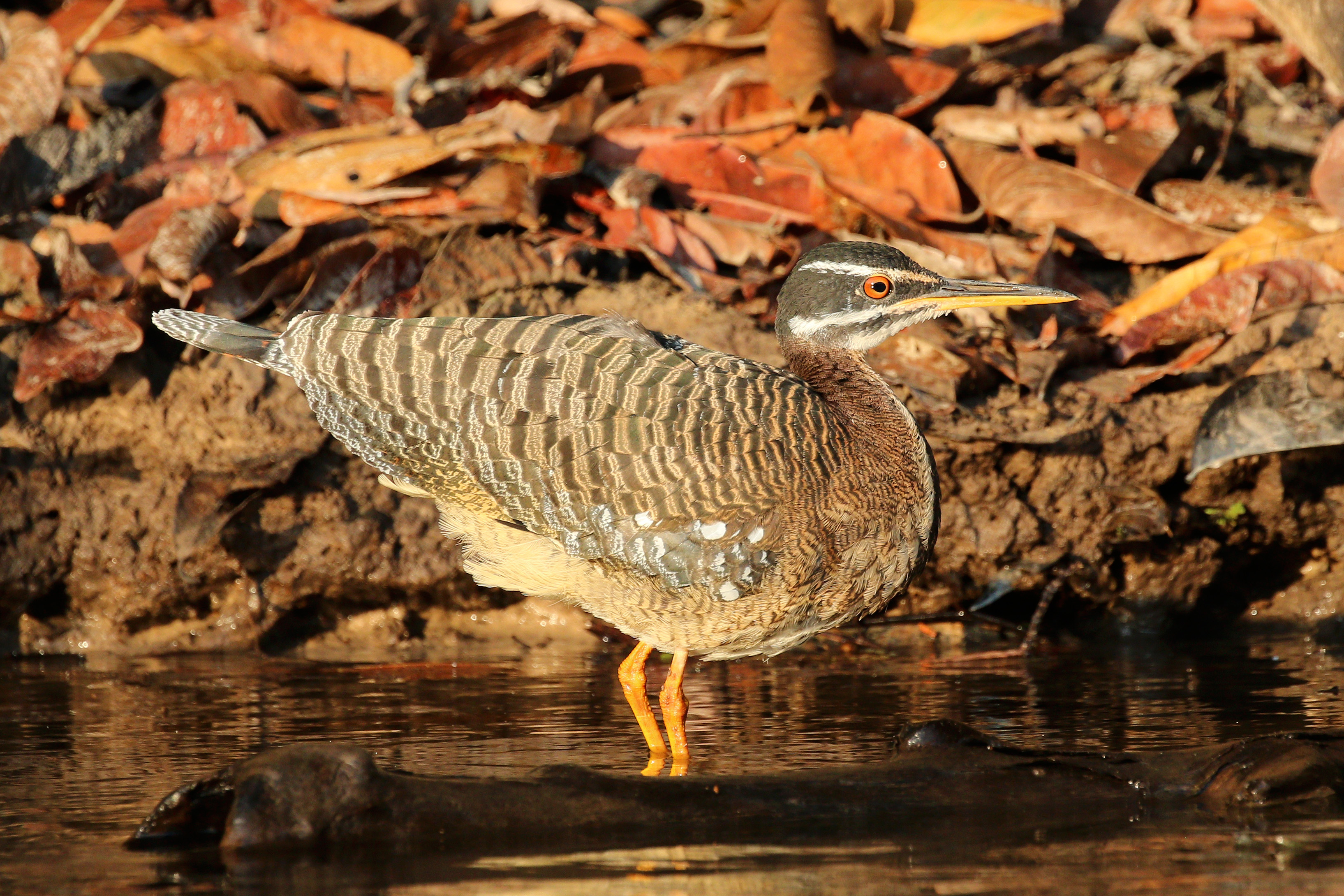 Sunbittern (Eurypyga helias), Cristalino River, Southern Amazon, Brazil